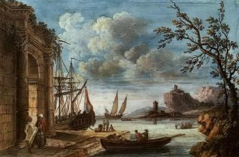 Vue d'un port animé, by Jean Joseph Kapeller